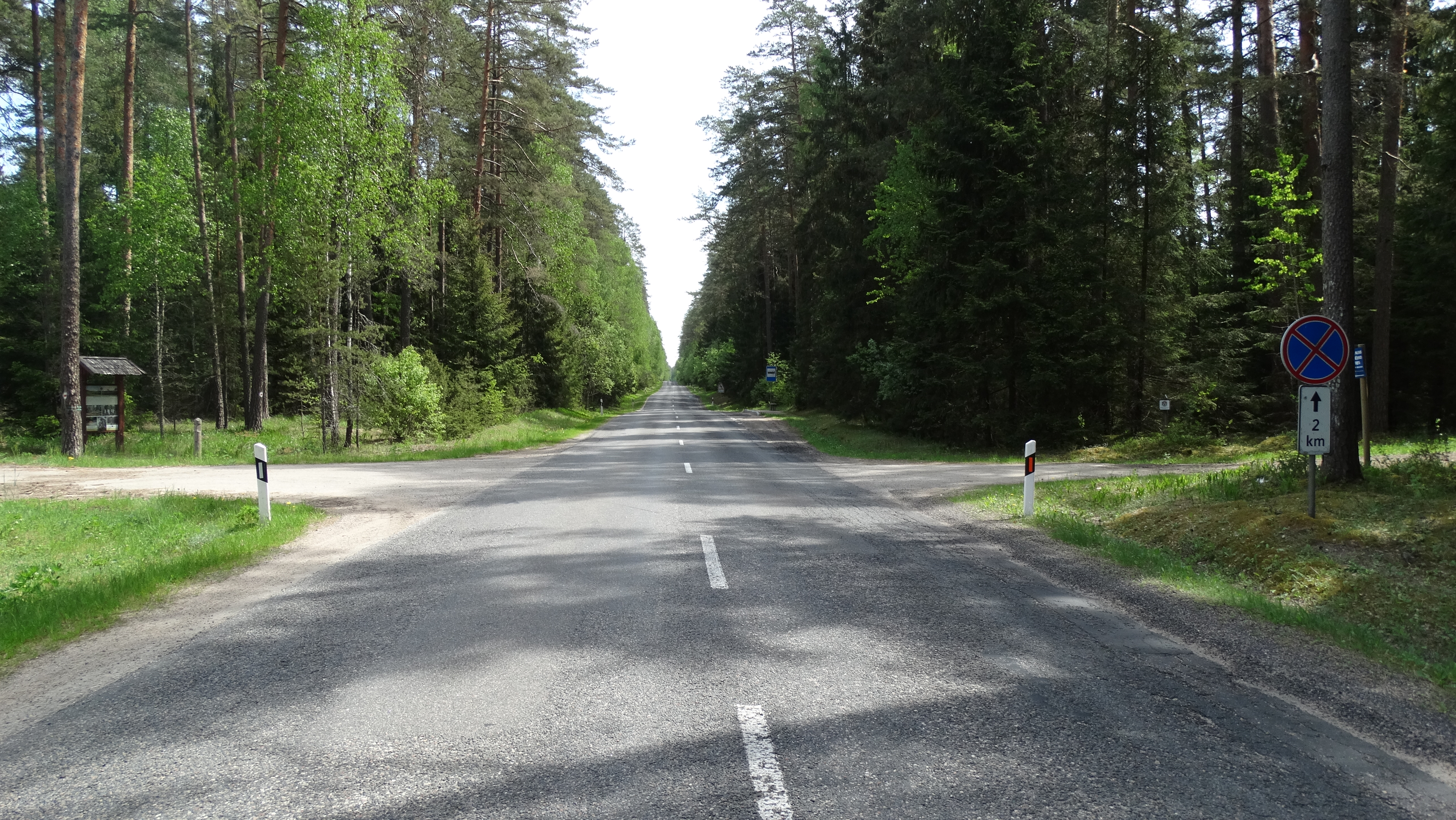 Nature reserve Kiaunėliškis, Švenčionys district, Lithuania